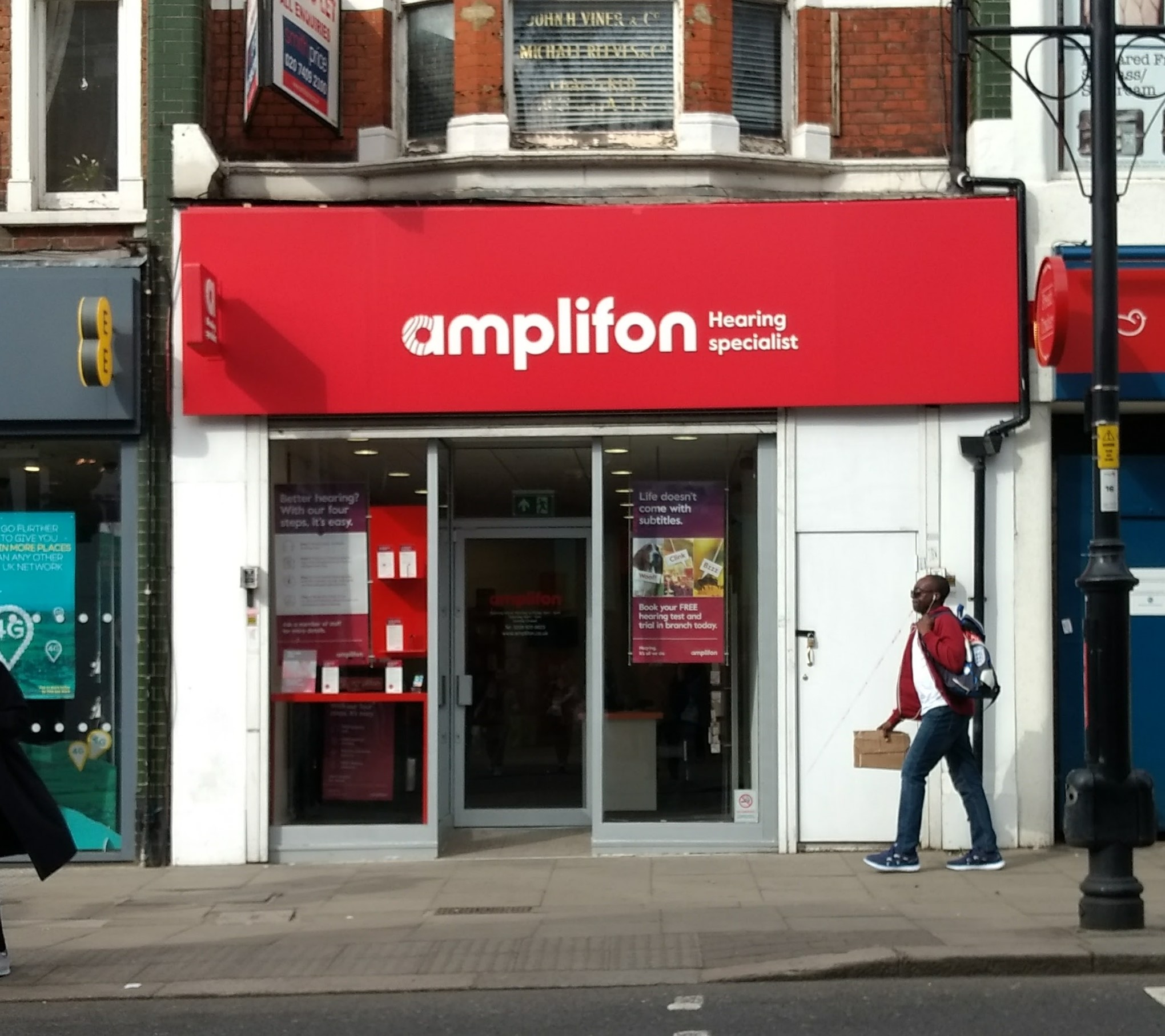 Amplifon shop, Church Street, Enfield